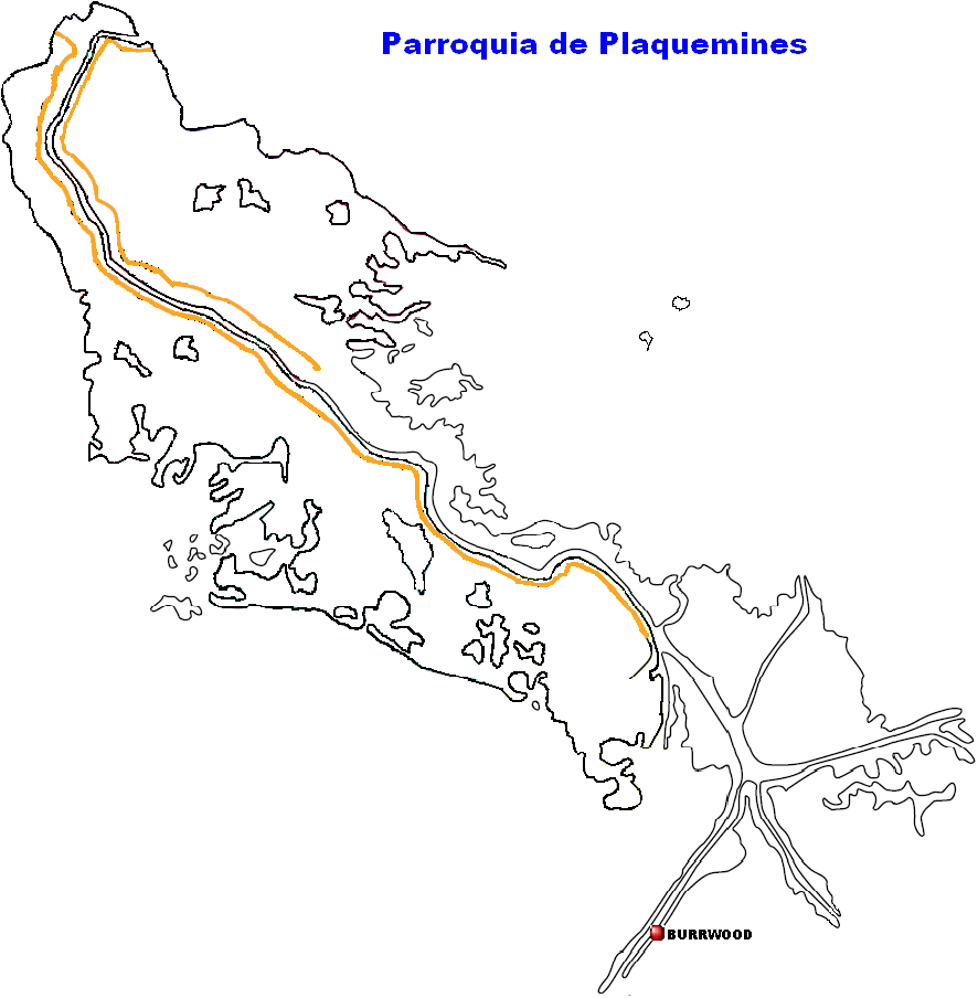 Burrwood Map Locator